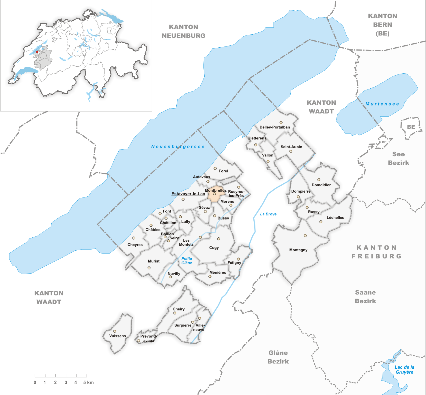 Municipality Montbrelloz Artist: Tschubby